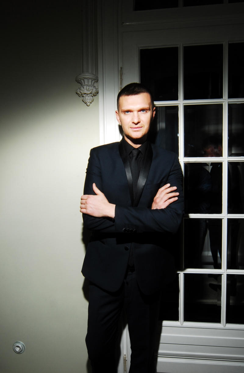 Maciej Zień, a fashion designer from Poland.